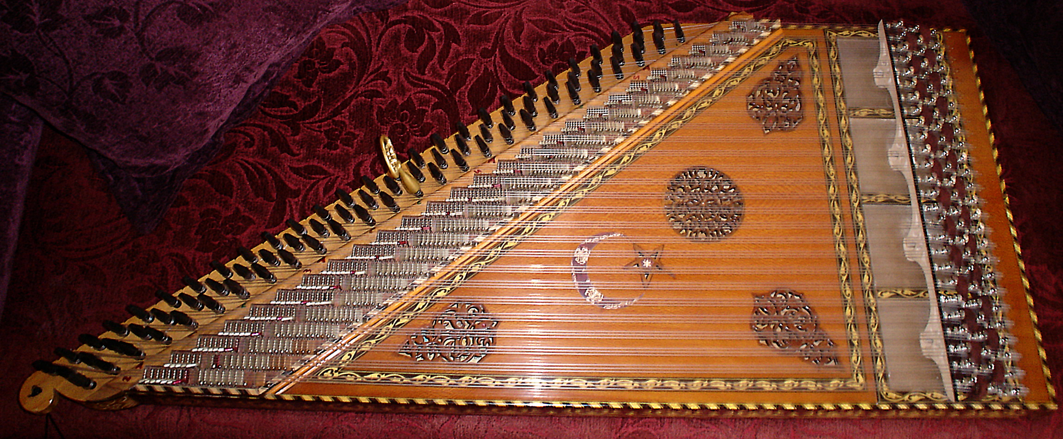 Picture displaying the first 79-tone Turkish kanun designed by Ozan Yarman - based on the 79 Moment of Symmetry out of 159-tone equal divisions of the octave tuning by the said author. Implementation of Wittner brand type 901 String Adjusters to the right is the author's innovation for fine-tuning the kanun.